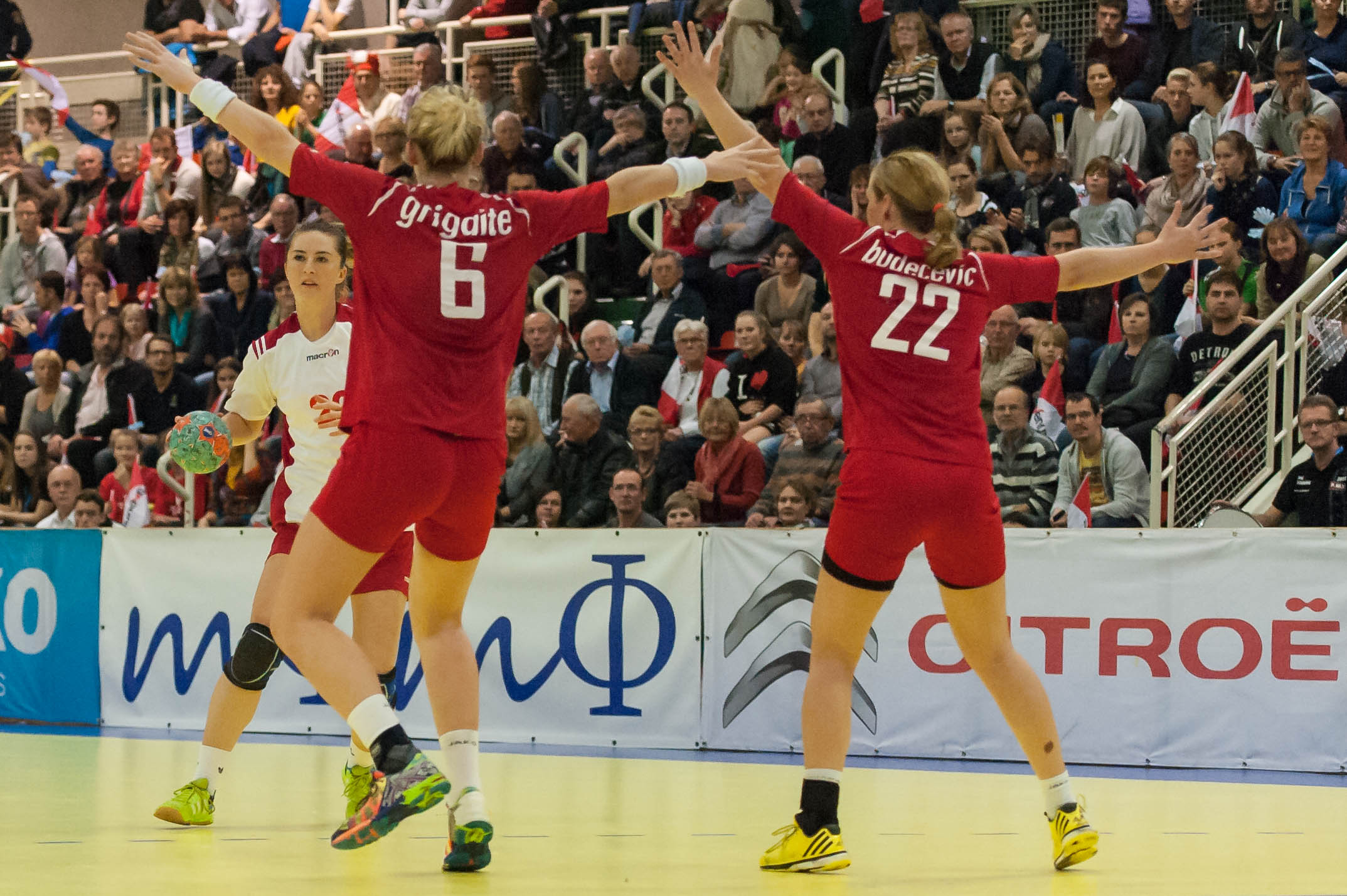 2015 World Women's Handball Championship Qualification 2014-12-06: Diğdem Hoşgör